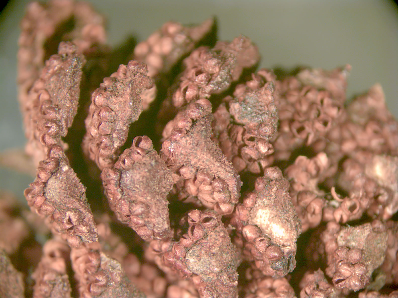 Portion of a dried pollen cone of Ceratozamia sp.